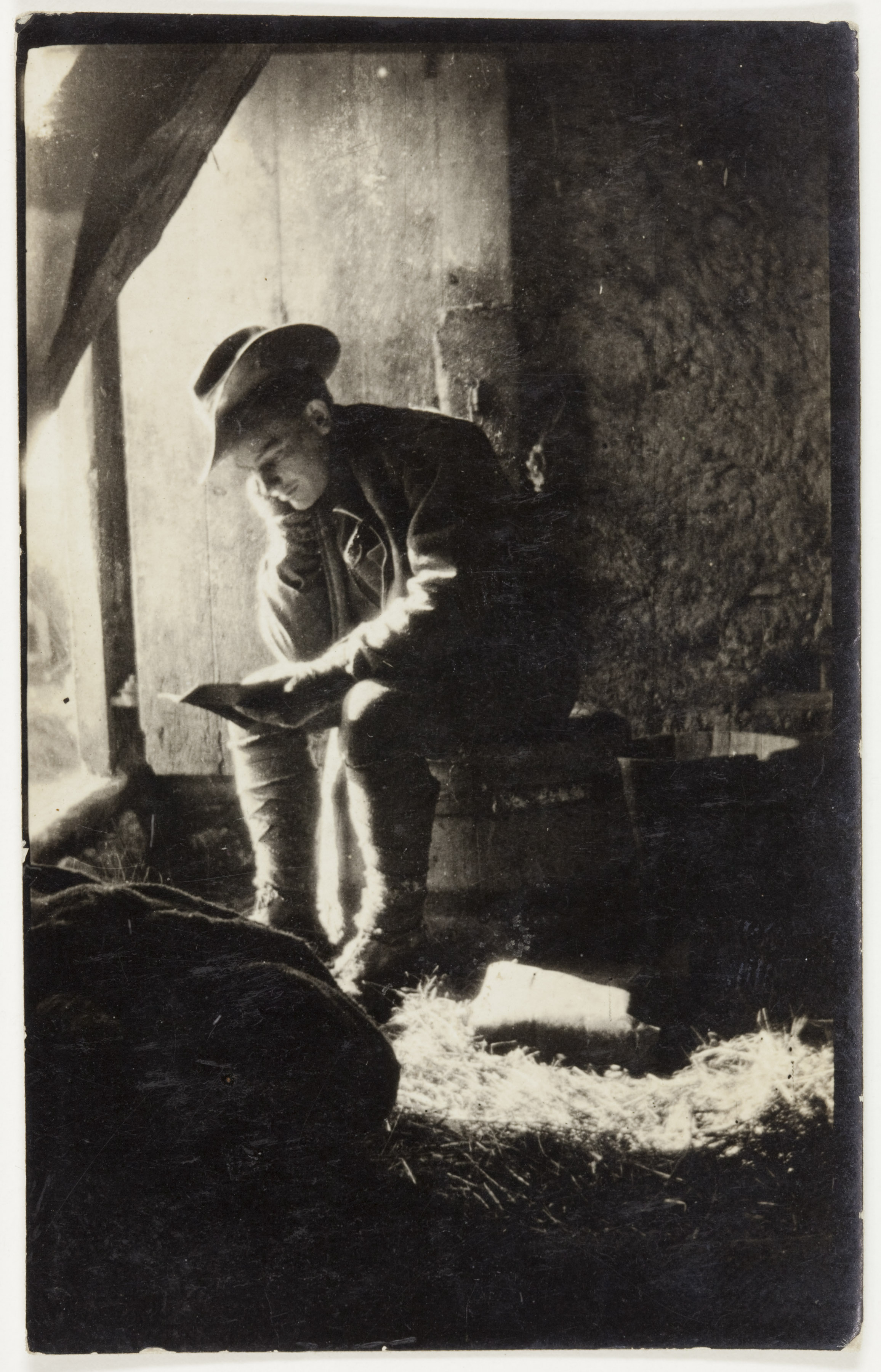 Photograph of World War I Australian soldier George Griffin, D Company, 53rd Battalion, A.I.F. reading.